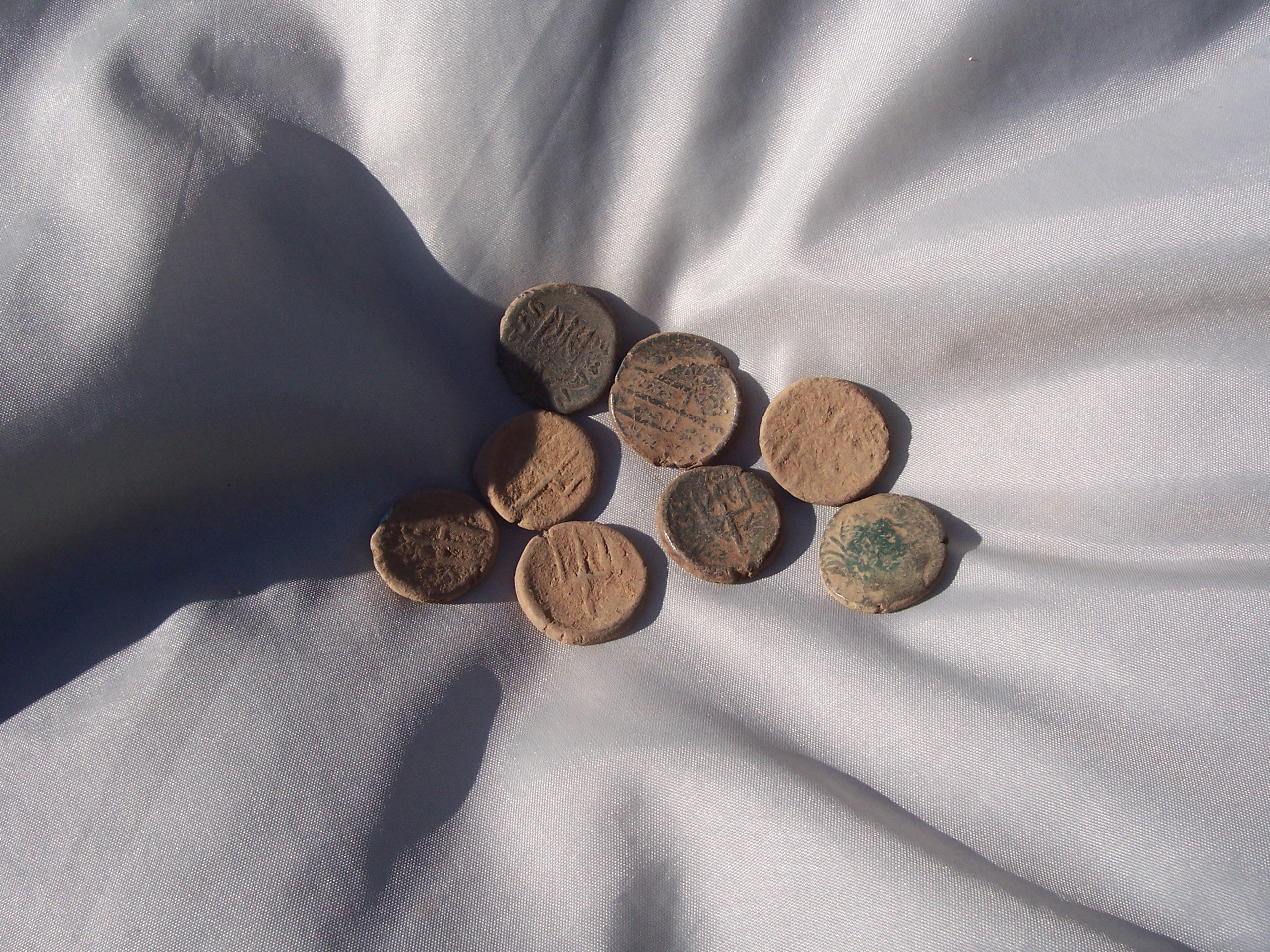 Coins, excavated by treasure-hunters near the village of Kochan. Apparently coins of the Kingdom of Macedonia, 2nd century BCE.